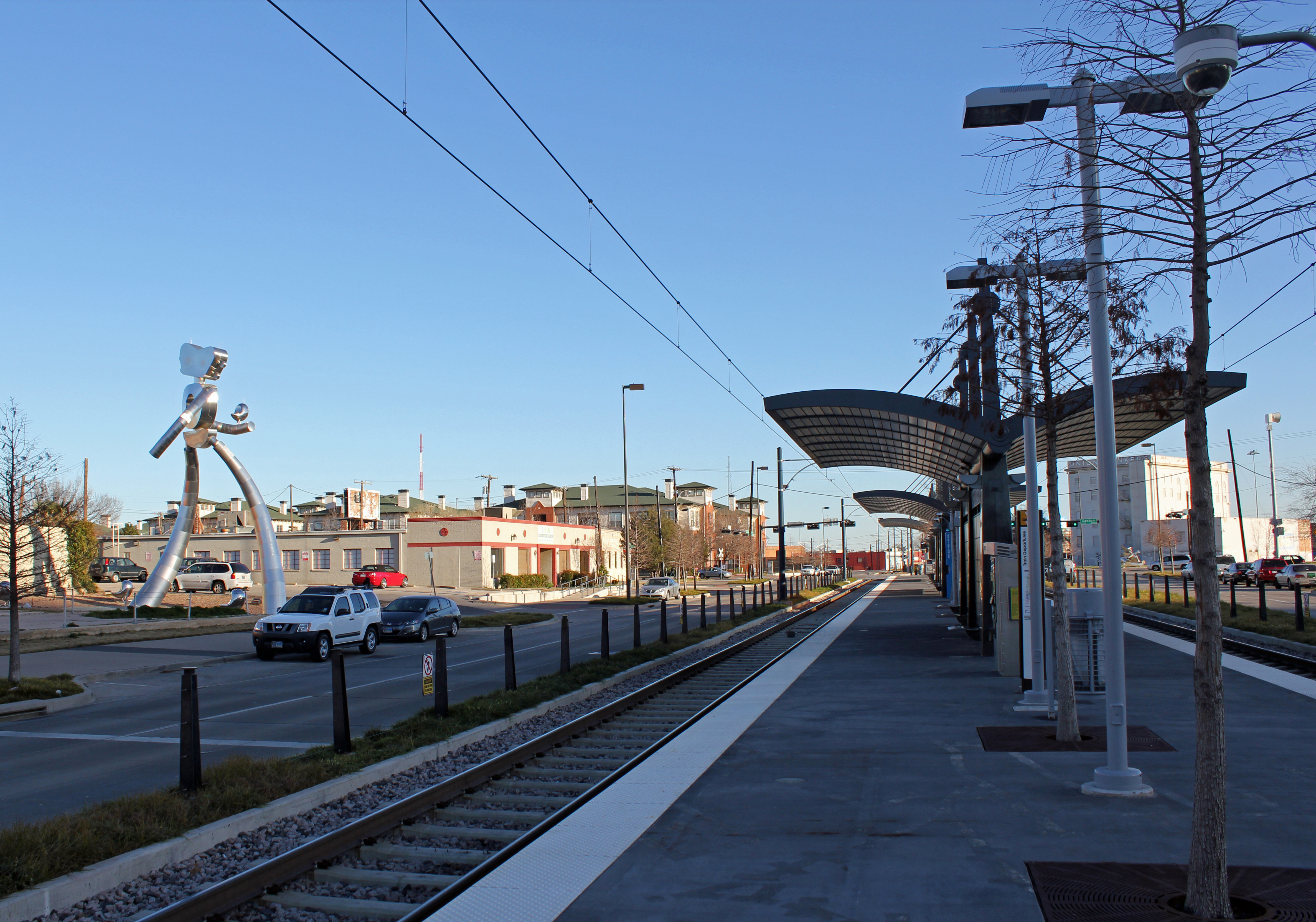 The Deep Ellum DART light rail station in the Deep Ellum Neighborhood of Dallas Texas. The station is located at 450 North Good-Latimer Expressway. Close to downtown, the station lies in the shadows of the city's skyscrapers on a late January afternoon.